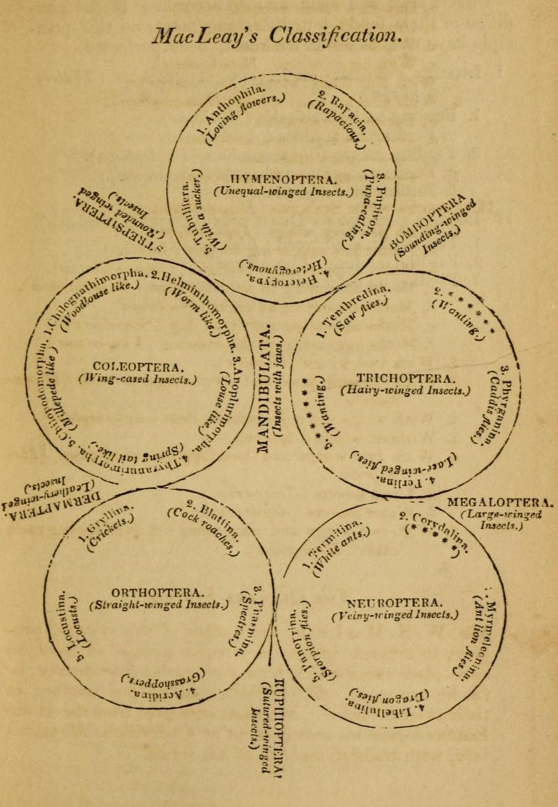 Diagram of a classification of insects by William Sharp Macleay, from James Rennie, Insect Architecture vol. II, p. 253.